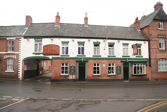 Galway Arms Inn on Bridgegate, formerly the Great North Road through Retford